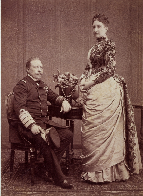 King Luís I of Portugal and his sister, Antónia of Hohenzollern-Sigmaringen, in 1887.